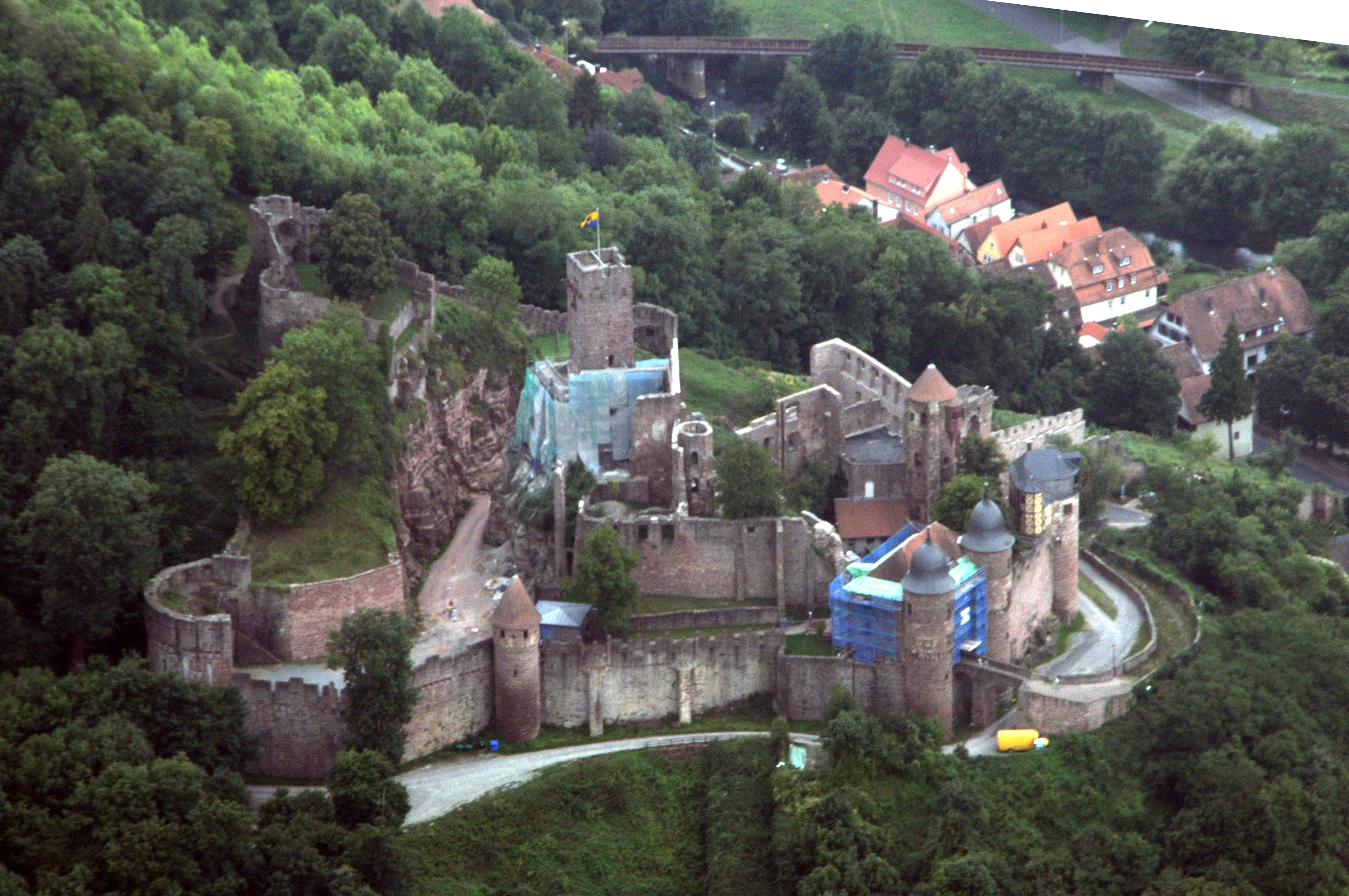 Wertheim, Baden-Württemberg, Germany, aerial photograph